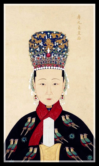 Portrait of Empress Xiaoyuan of Ming Dynasty China